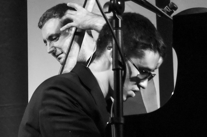 Justin Kauflin and Thomas Fonnesbæk in Demark 2016